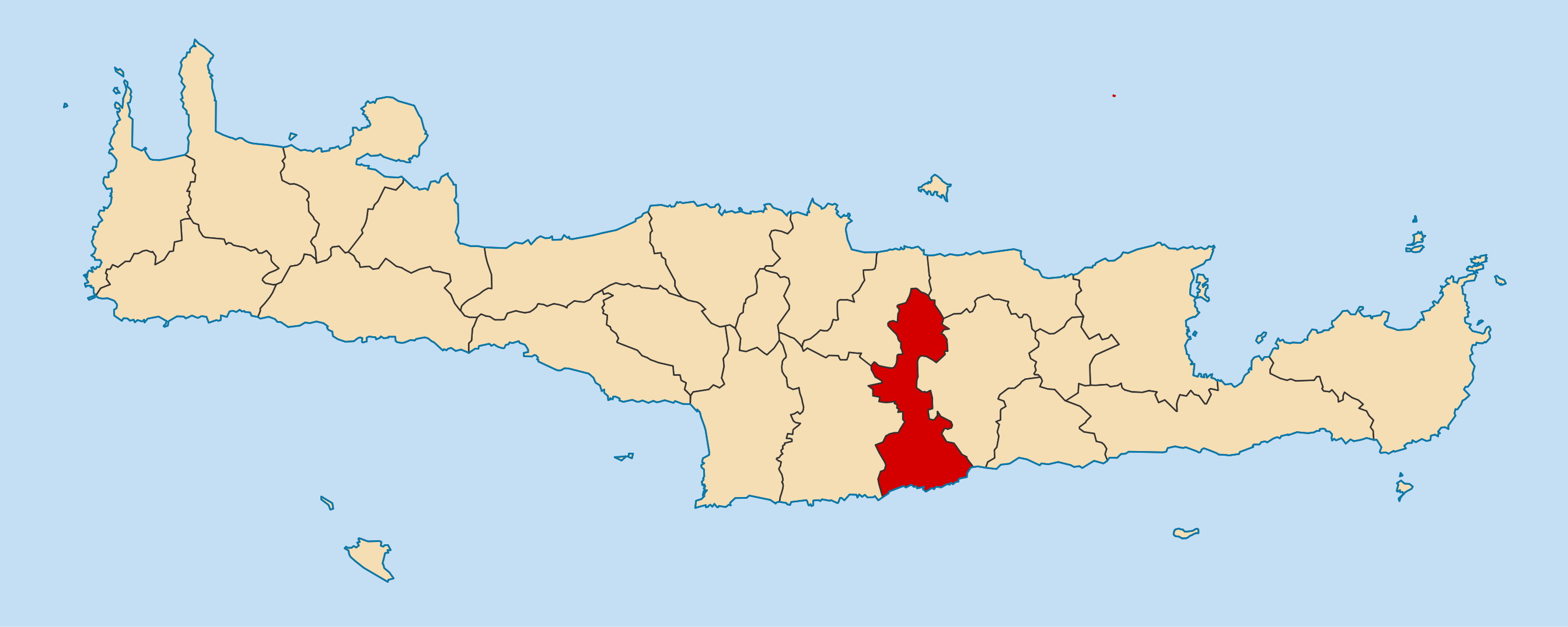 Locator map for Archanes-Asterousia municipality in Greek region Crete (2011)